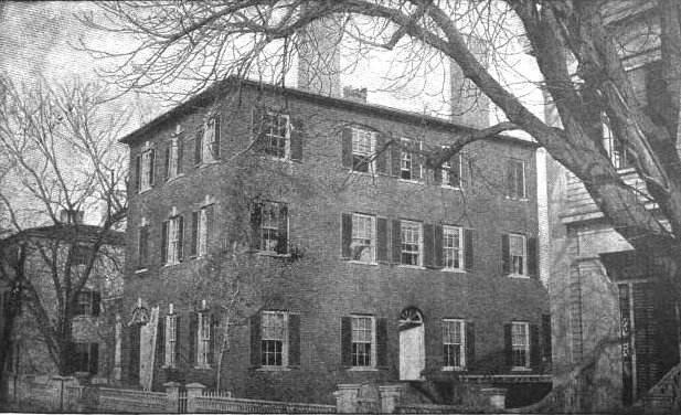 Photograph of the home of American author Hannah Flagg Gould in Newburyport, Massachusetts. Image from Literary Pilgrimages in New England to the Homes of Famous Makers of American Literature... by Edwin M. Bacon. New York: Silver, Burdett and Company, 1902: p. 85